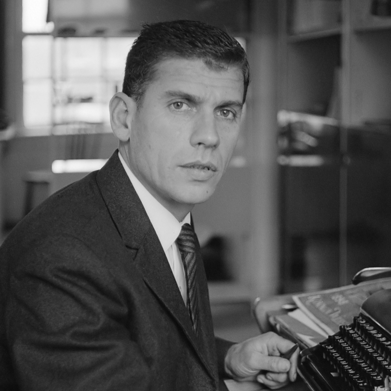 Gerard Kornelis van het Reve (romanschrijver) 28 november 1963